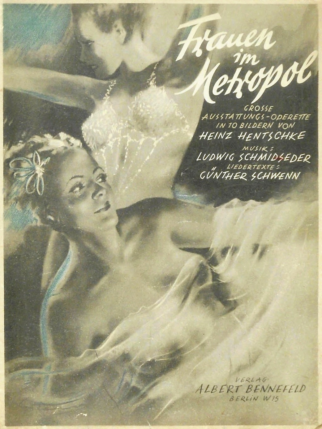 Ludwig Schmidseder: "Frauen im Metropol"; sheet of music